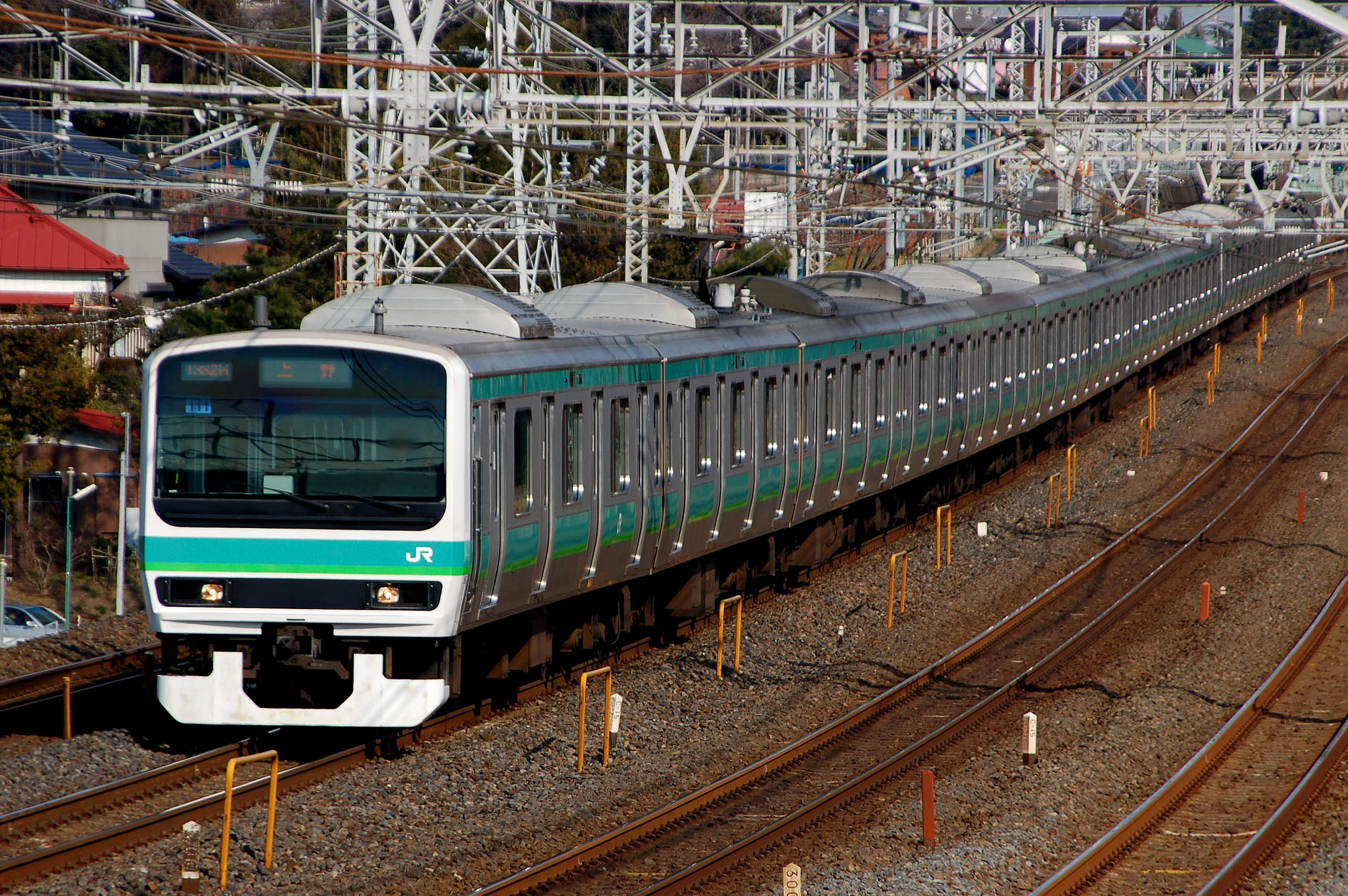 JR East E231-0 for Jōban Line